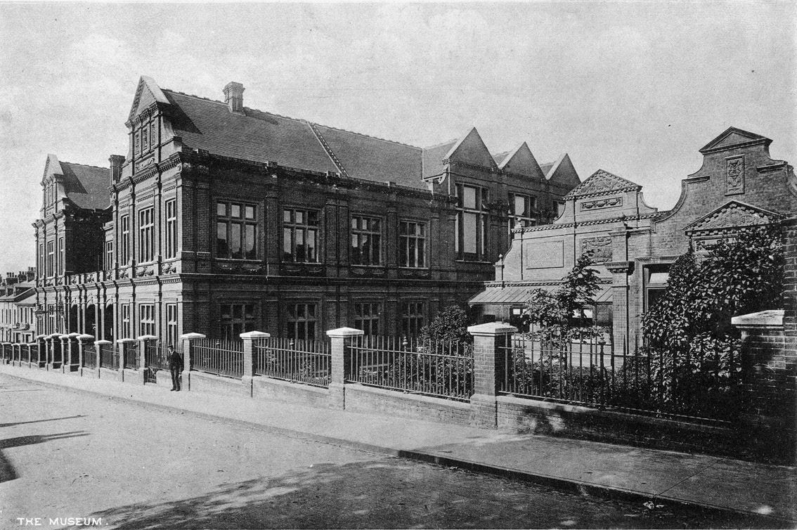 scanned from postcard in uploader's possession